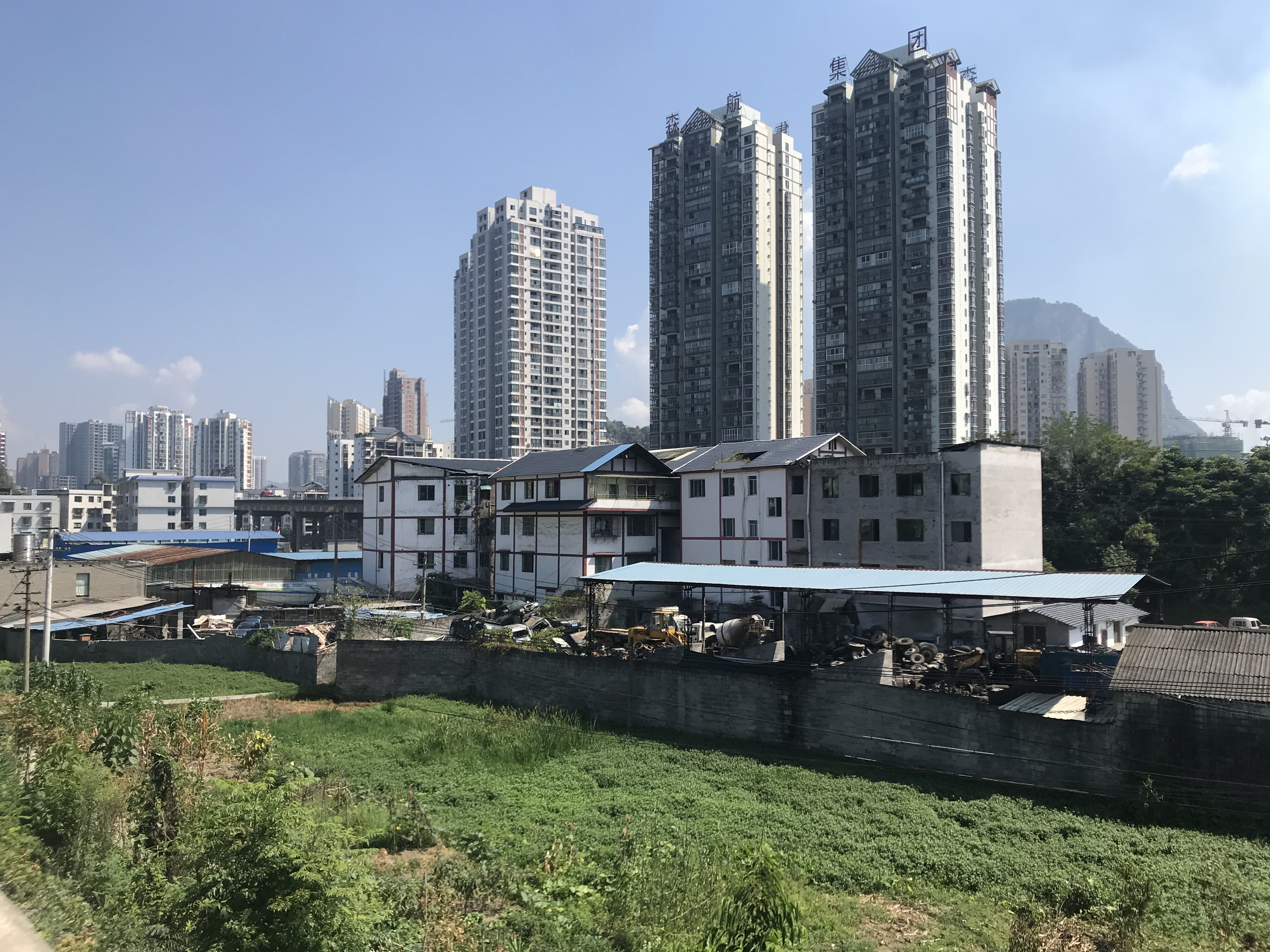 201908 Buildings in Tongzi County